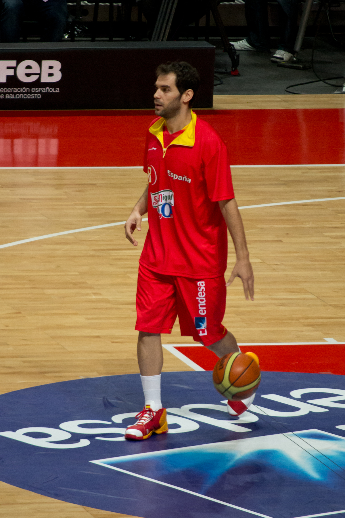 José Manuel Calderón with Spain national basketball team.